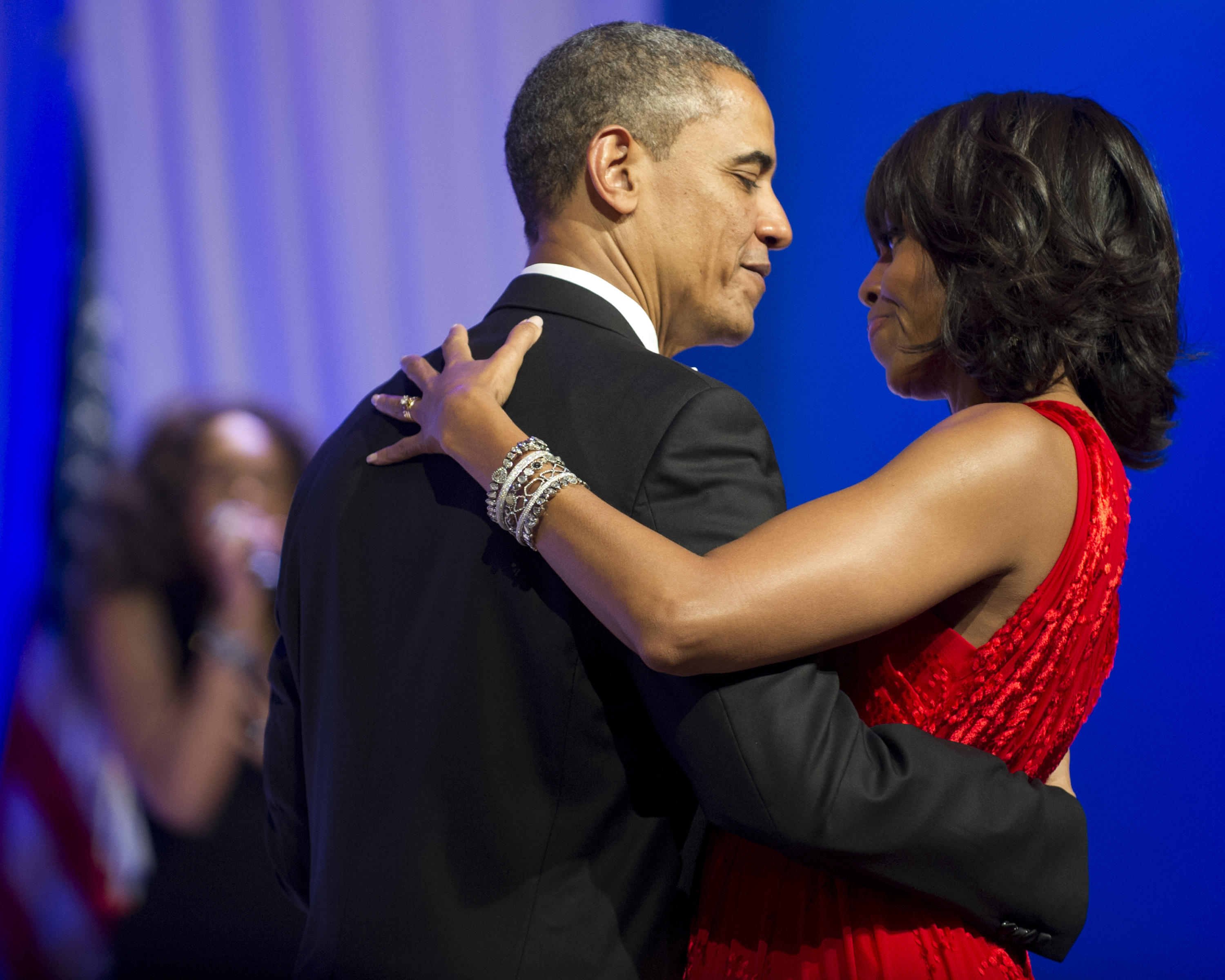 President Barack H. Obama, center, and first lady Michelle dance during a performance by Jennifer Hudson at the Commander in Chief's Ball at the Washington Convention Center in Washington, D.C., Jan. 21, 2013. Obama was elected to a second four-year term in office Nov. 6, 2012. More than 5,000 U.S. Service members participated in or supported the inauguration.